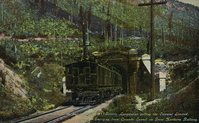 Postcard photo of the Great Northern Railway's "Oriental Limited" emerging from the Cascade Tunnel in Washington state. The train is being pulled by an electric locomotive.